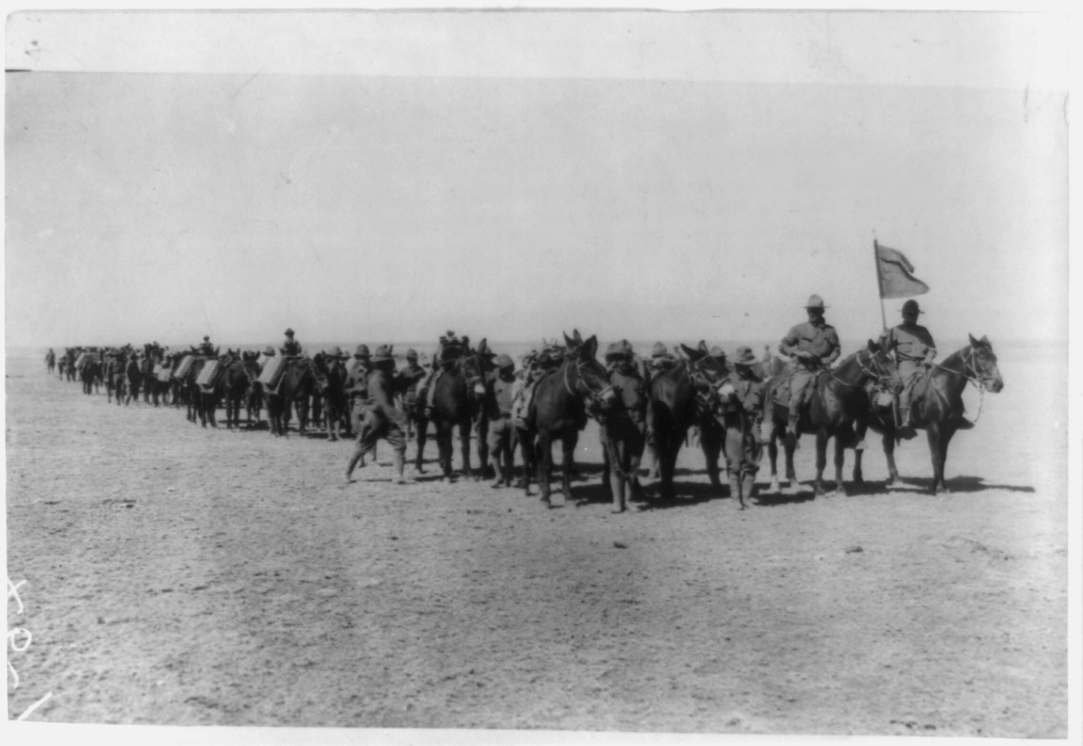 4th Field Artillery Mexican Expedition 1916